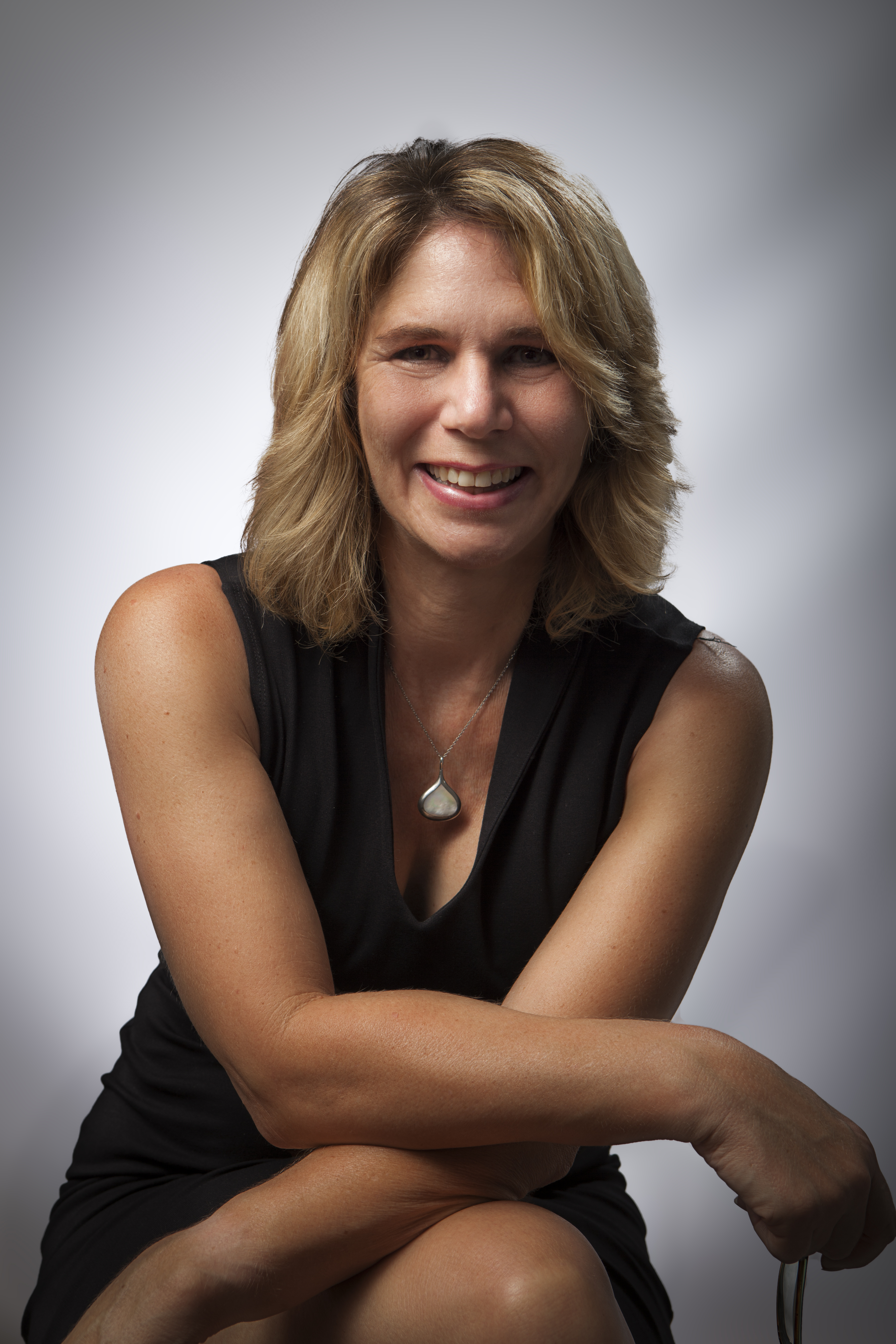 Depicted person: C.S. O'Cinneide – Canadian author